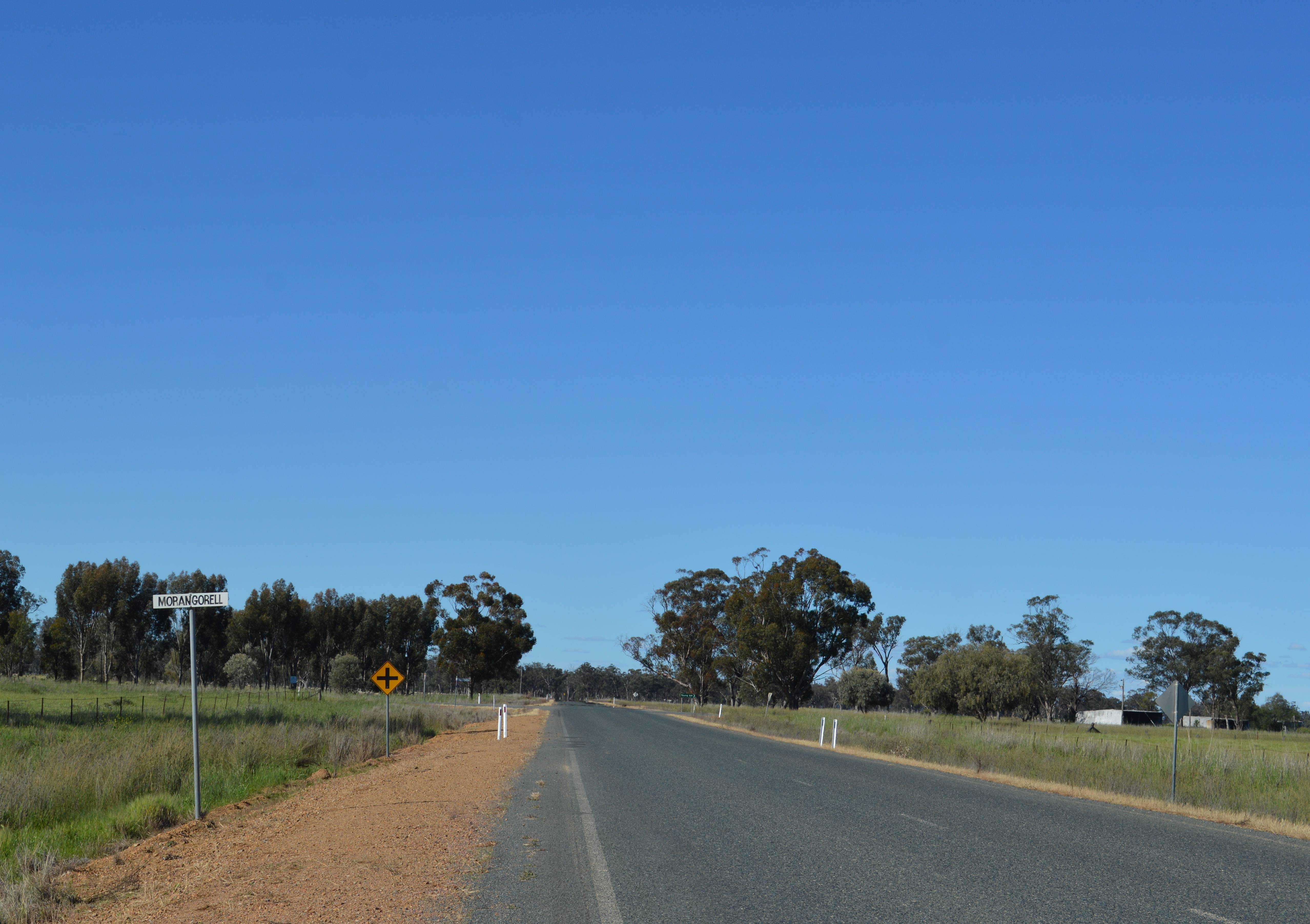 Town entry sign at Morangarell, New South Wales